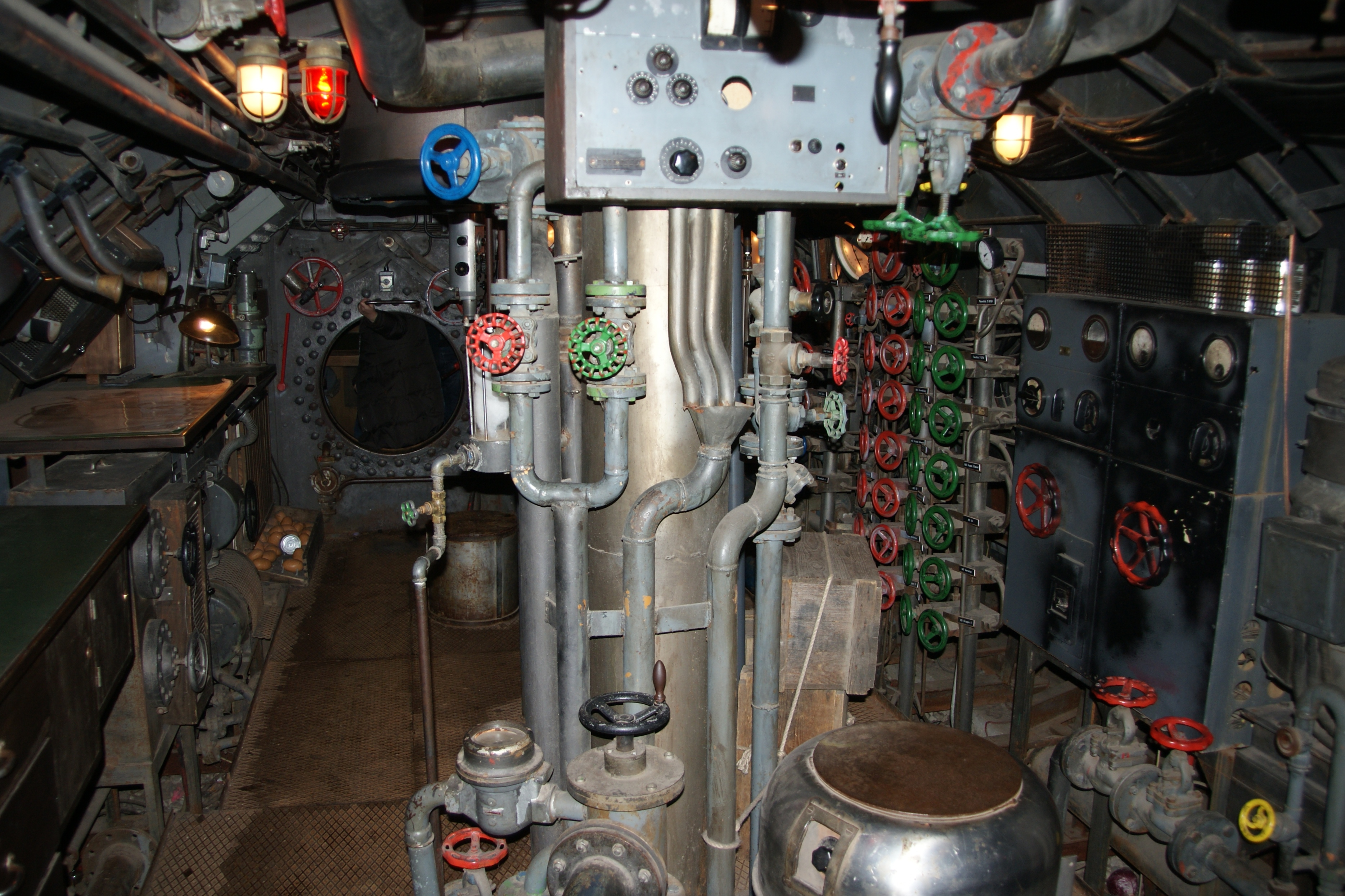 Film set of Das Boot at the Bavaria Film Studios